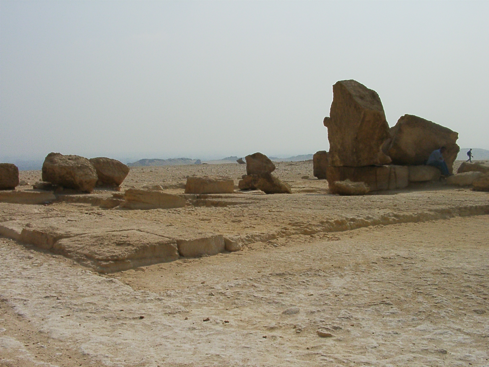 Base of Khafre's satellite pyramid, with the remnants of the original core blocks.